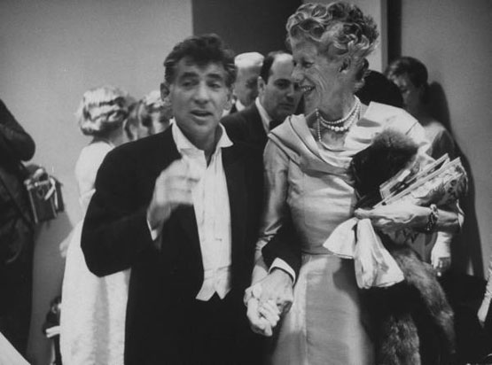 Helen (Mrs. Lytle) Hull, the first wife of Vincent Astor, with Leonard Bernstein, taken in 1962 at age 69.